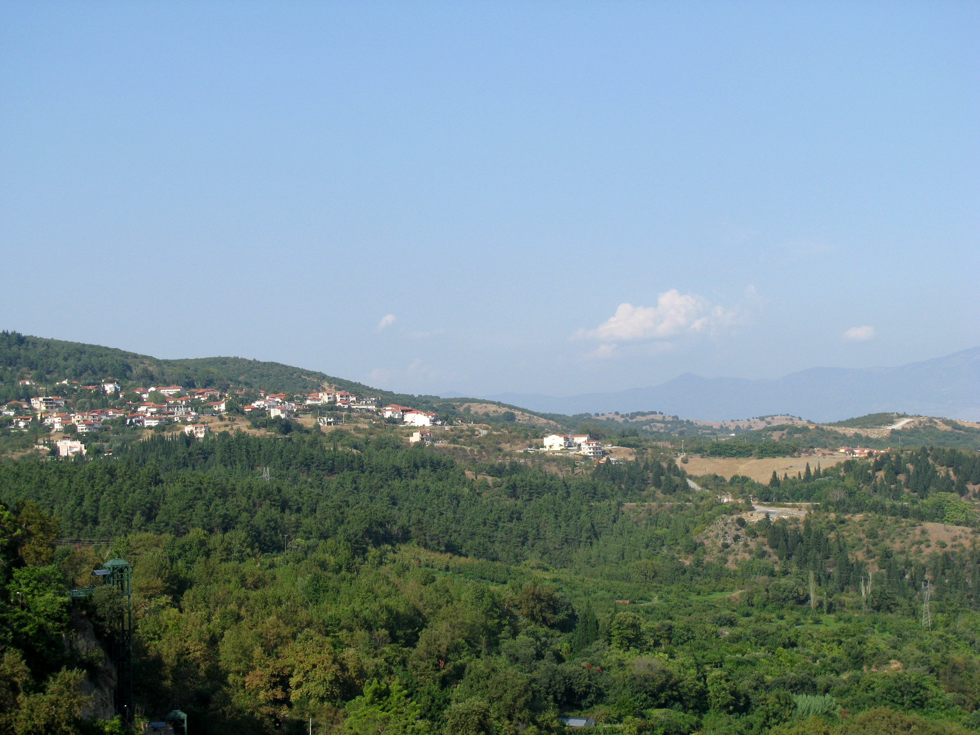 Village of Eklisohori/Crkoviani, Aegean Macedonia, Greece